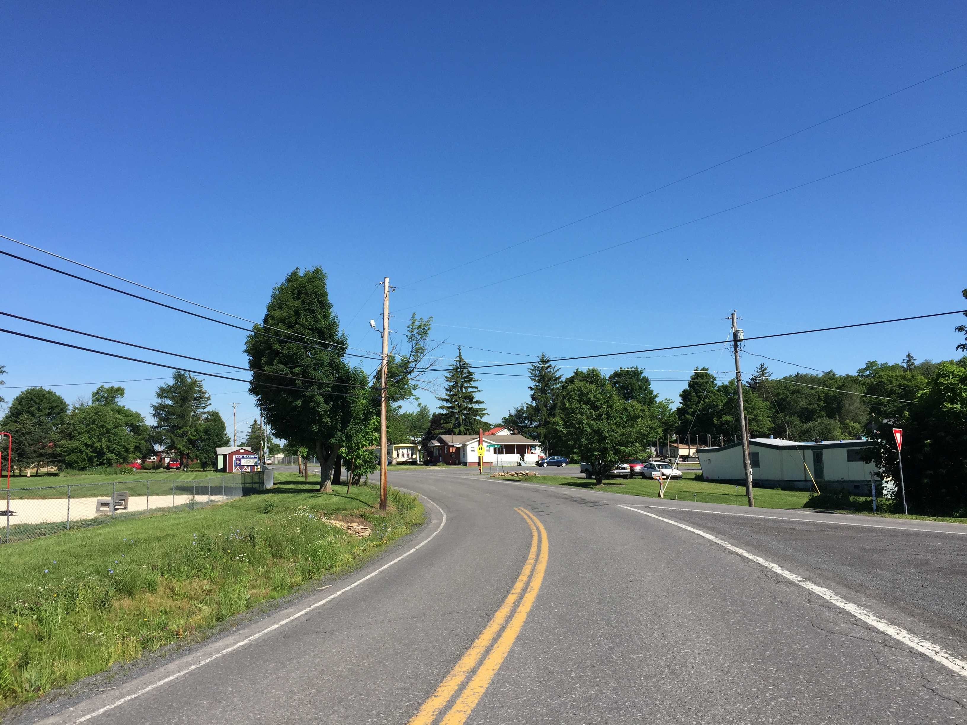 View north along West Virginia State Route 42 (Cottage Street) entering Elk Garden, Mineral County, West Virginia